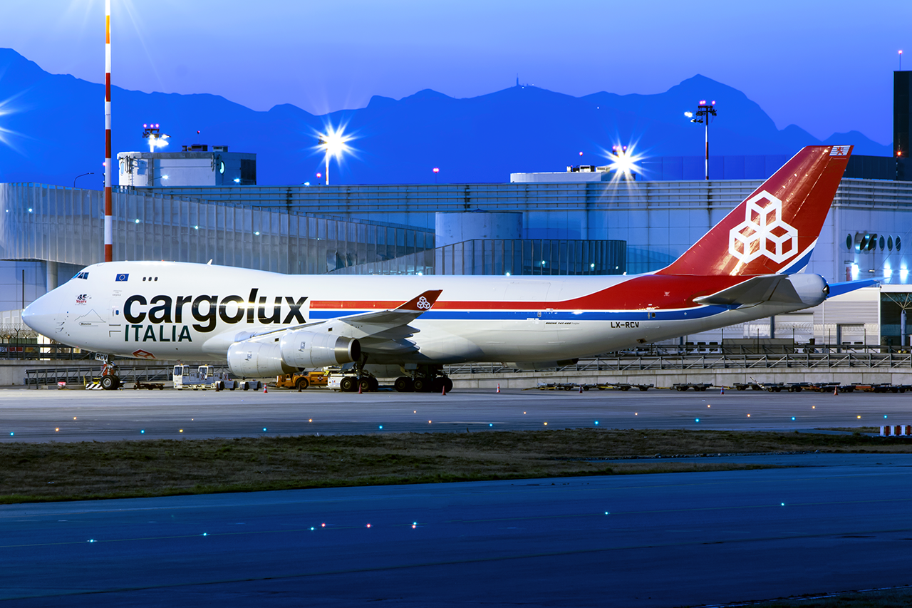 A Cargolux Italia B747 with new livery